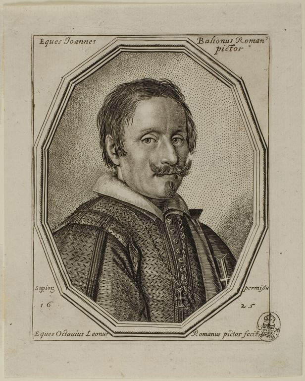 Painter Giovanni Baglione on a 1625 engraving-etching by Ottavio Leoni.